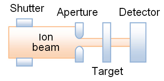 The ion beam is switched-off as soon as a single ion is detected